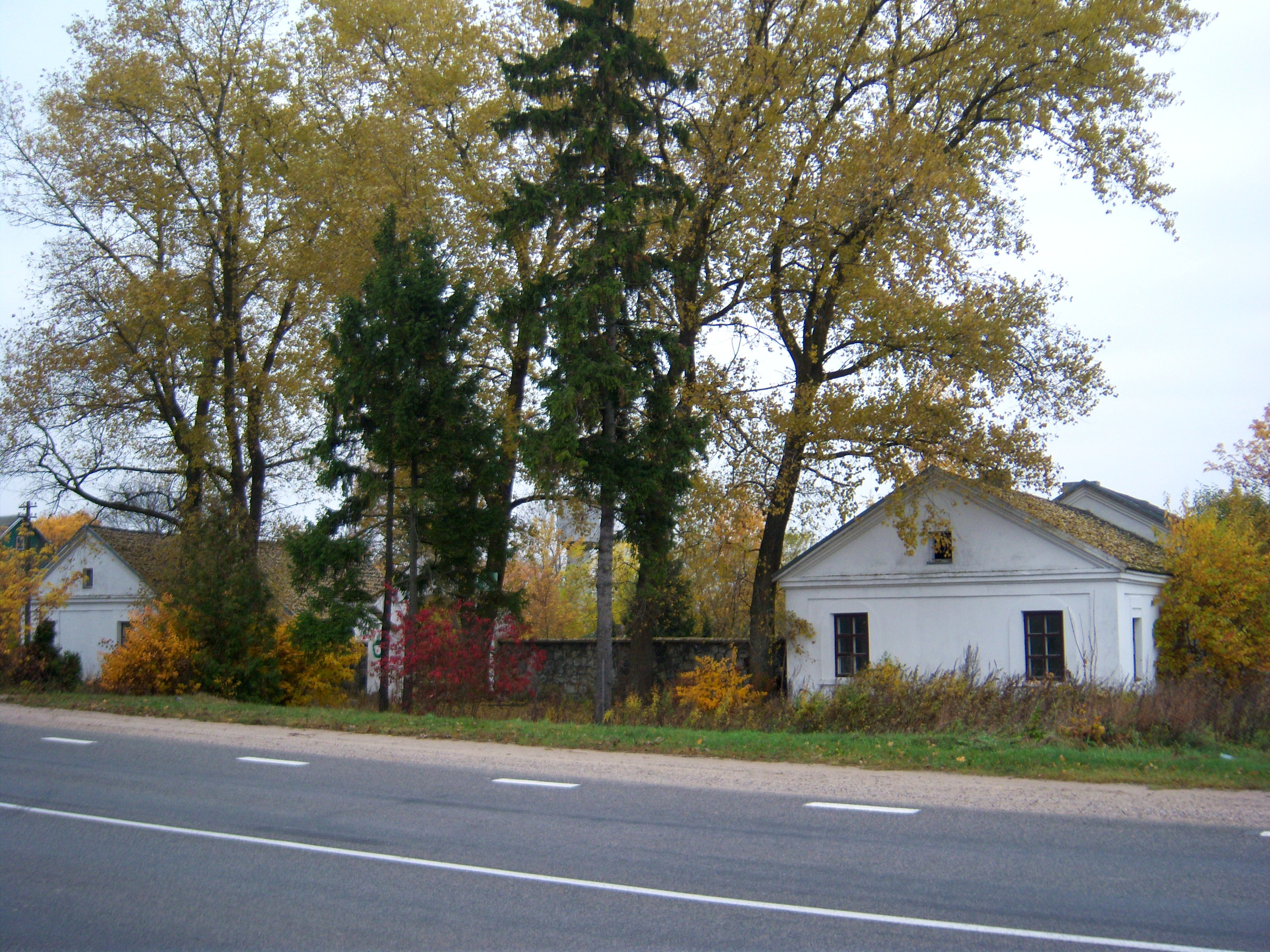 Former post station by the road A6, Staškūniškis, Anykščiai District, Lithuania